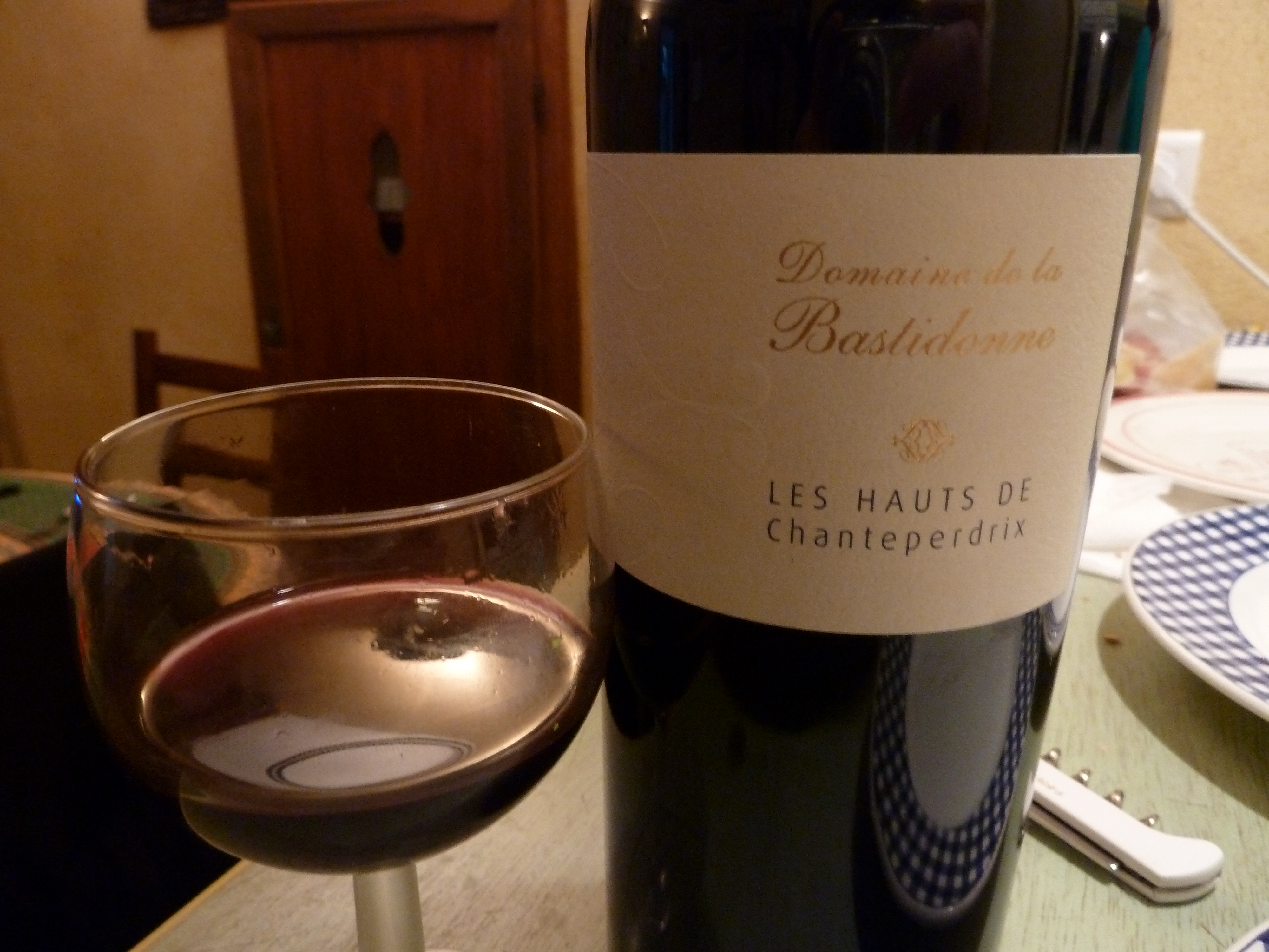 French wine made in the Côtes du Ventoux AOC of the Rhone Valley. Red French wine from the Rhone wine region of the Cotes du Ventoux made from a blend of Syrah, Carignan, Grenache, Mourvedre, Cinsault, Picpoul and Counoise.